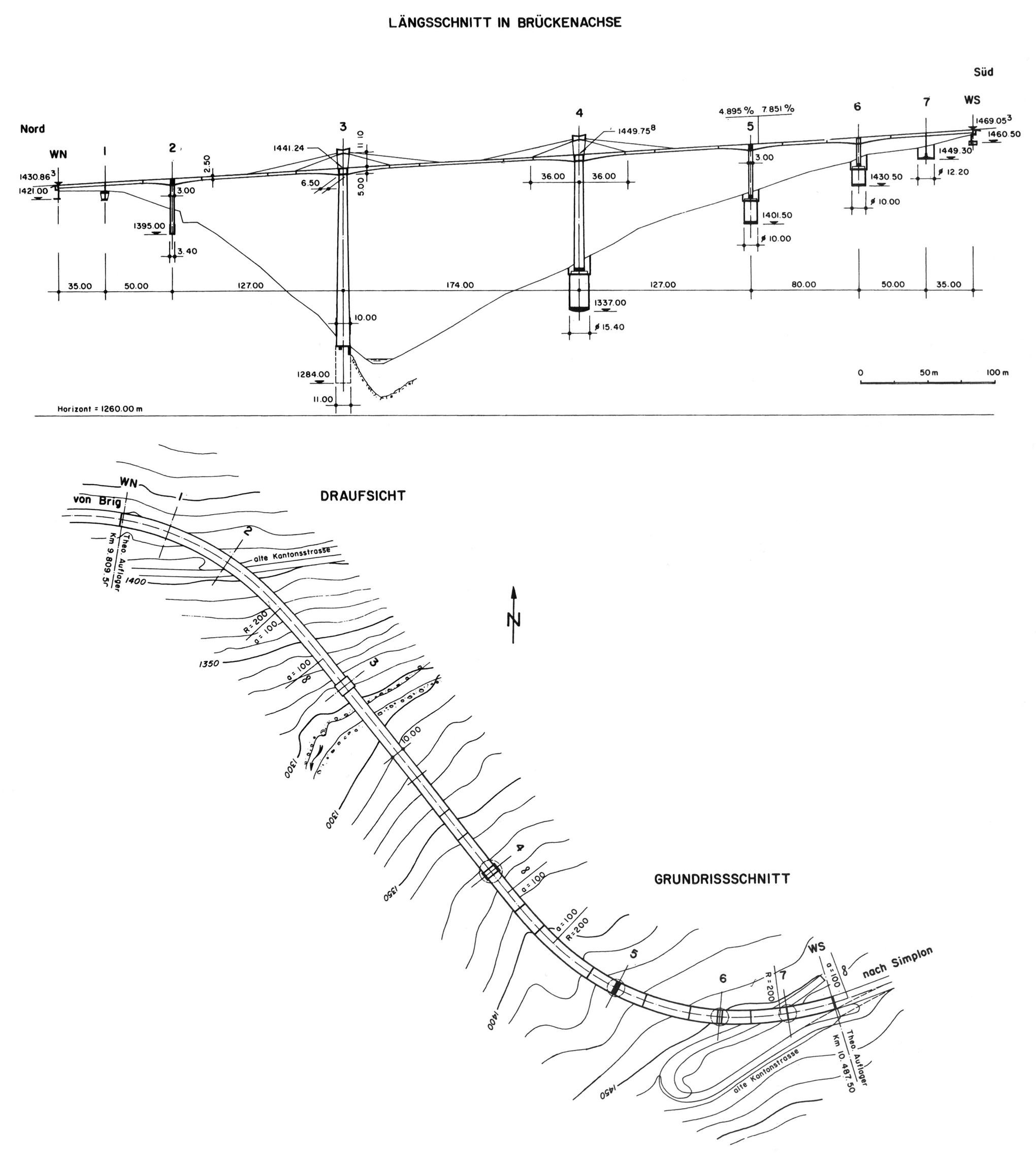 Layout of the Ganter bridge by Christian Menn at the Simplon road; Valais, Switzerland. Contrary to the original drawing the base view is oriented to the north, pivoted on pier # 3.